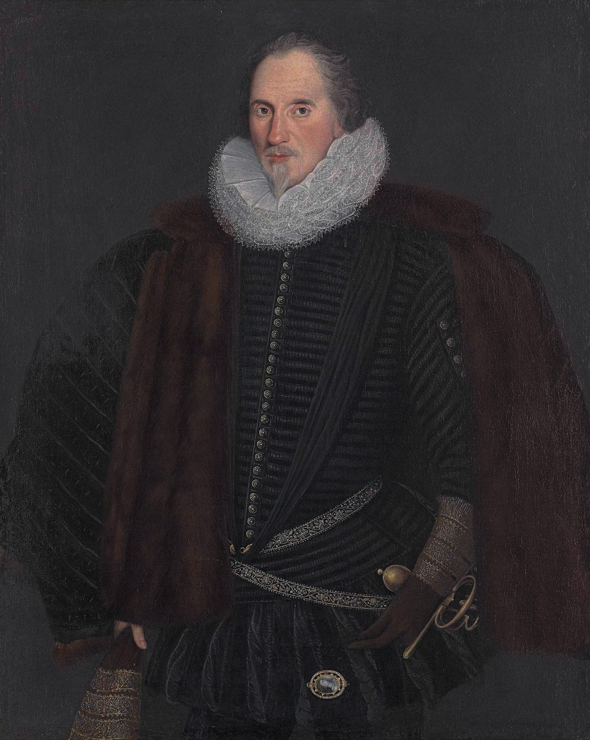 John Scudamore (1540-1623), of Holme Lacy, Herefordshire oil on canvas 110.2 x 89.6 cm ca 1590